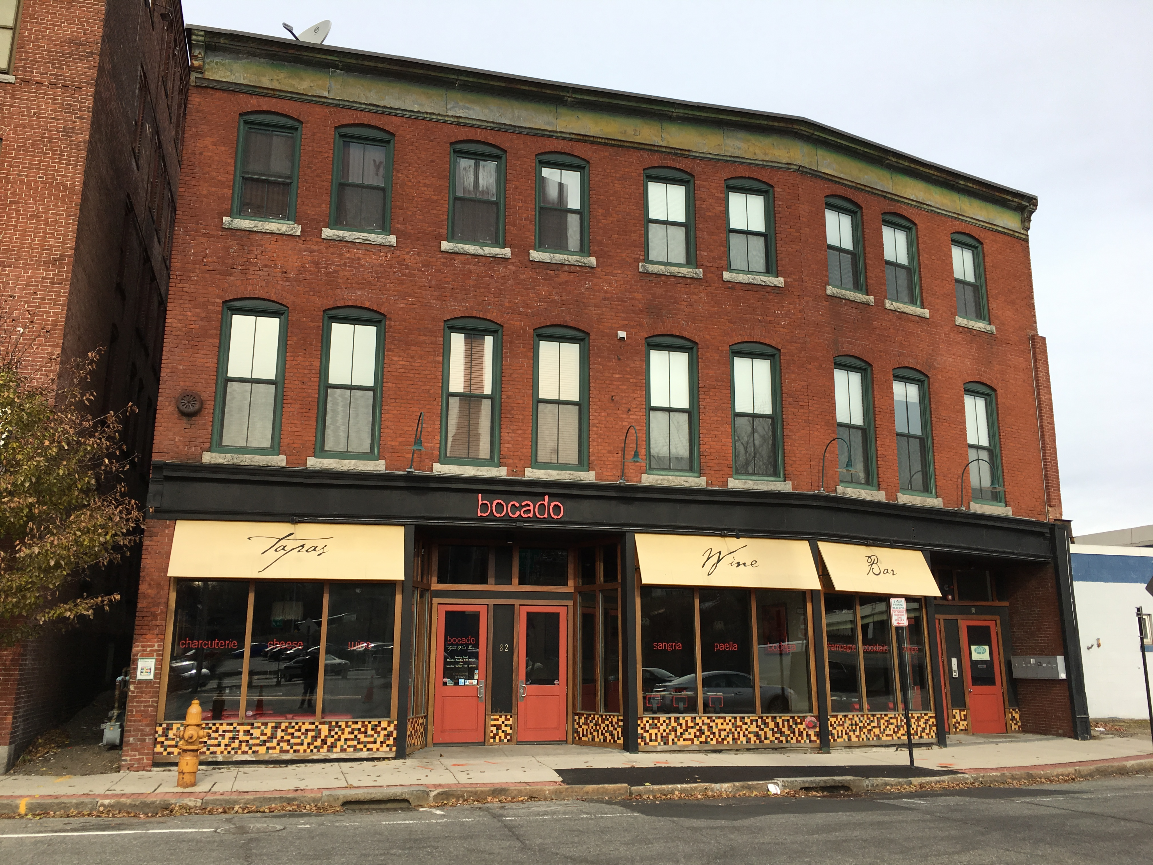 Emma Goldman’s ice cream shop (photographed in 2017)